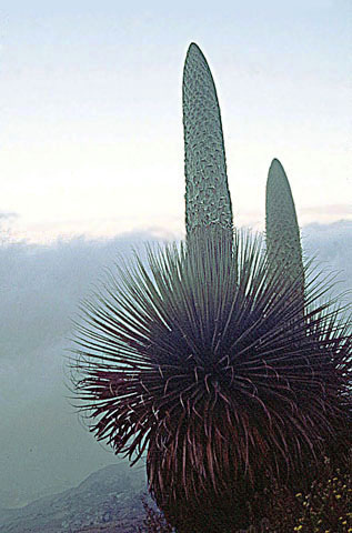 The world's largest Bromeliad, known as Queen of the Puna, or here in Bolivia as Puya Titantica. In context at